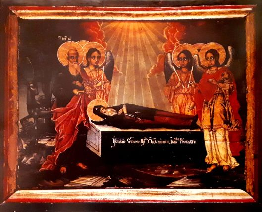 Assumption_of_Saint_John_of_Rila_by_Toma_Vishanov.